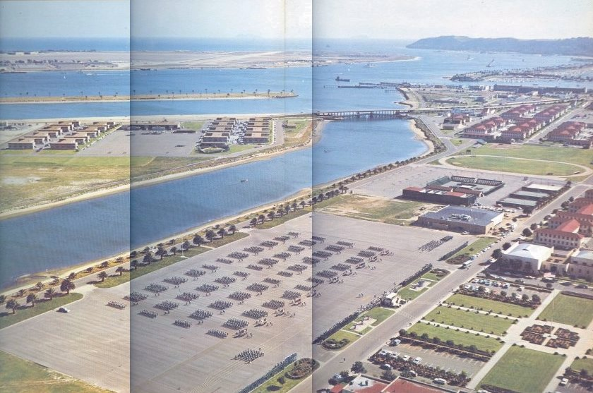 Overhead view of Preble Field, looking south toward Camp Nimitz, Coronado Island, and Point Loma. Preble Field was the marching grinder used for training recruits in marches and maneuvers, as well as recruit pass-in-review (graduation). On the southern end of Preble Field was Sealanes, the NTC Bowling Alley (Building 85, constructed 1964, demolished), as well as the boxing ring (demolished), and the Hull athletic field. Today, the area is now part of Liberty Station. Preble Field itself is a dirt lot, but is currently under construction to become a large park. Photo from The Anchor, Naval Training Center Yearbook, 1961.